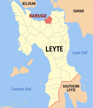 Map of Leyte showing the location of Barugo